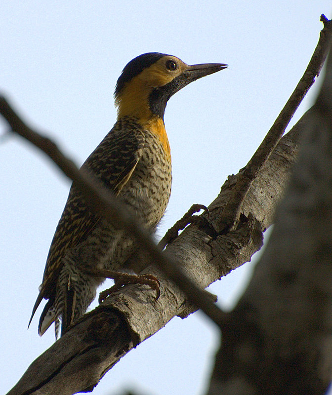 Campo Flicker (Colaptes campestris). Near Sarutaia (Brazil).